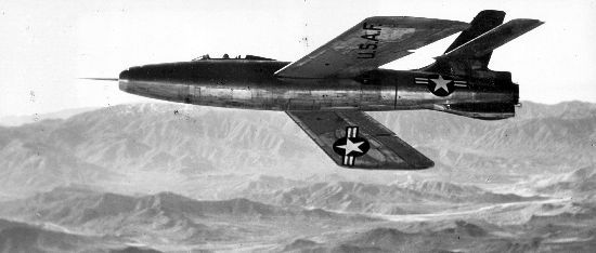 Republic XF-91 Thunderceptor